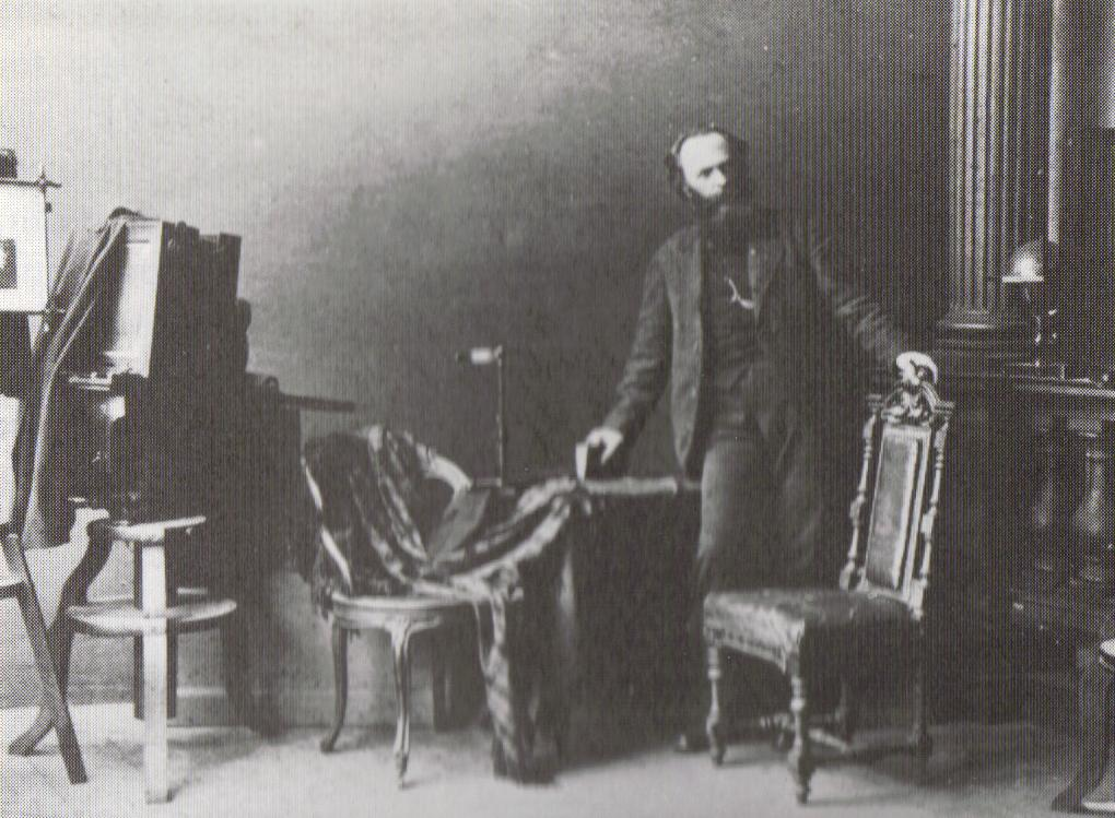 Photograph of William Carrick (d. 1878), self-portrait